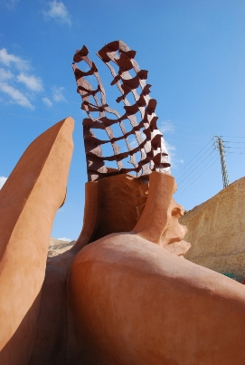 "awakening"